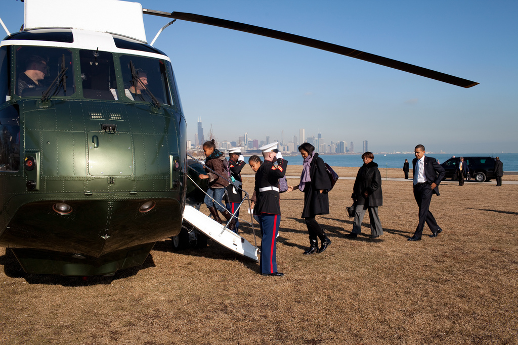 After spending a weekend in Chicago, President Barack Obama, First Lady Michelle Obama, her mother Marian Robinson, Malia and Sasha Obama head back to Washington, departing from Burnham Park landing zone (LZ) for O'Hare Airport 2/16/09.